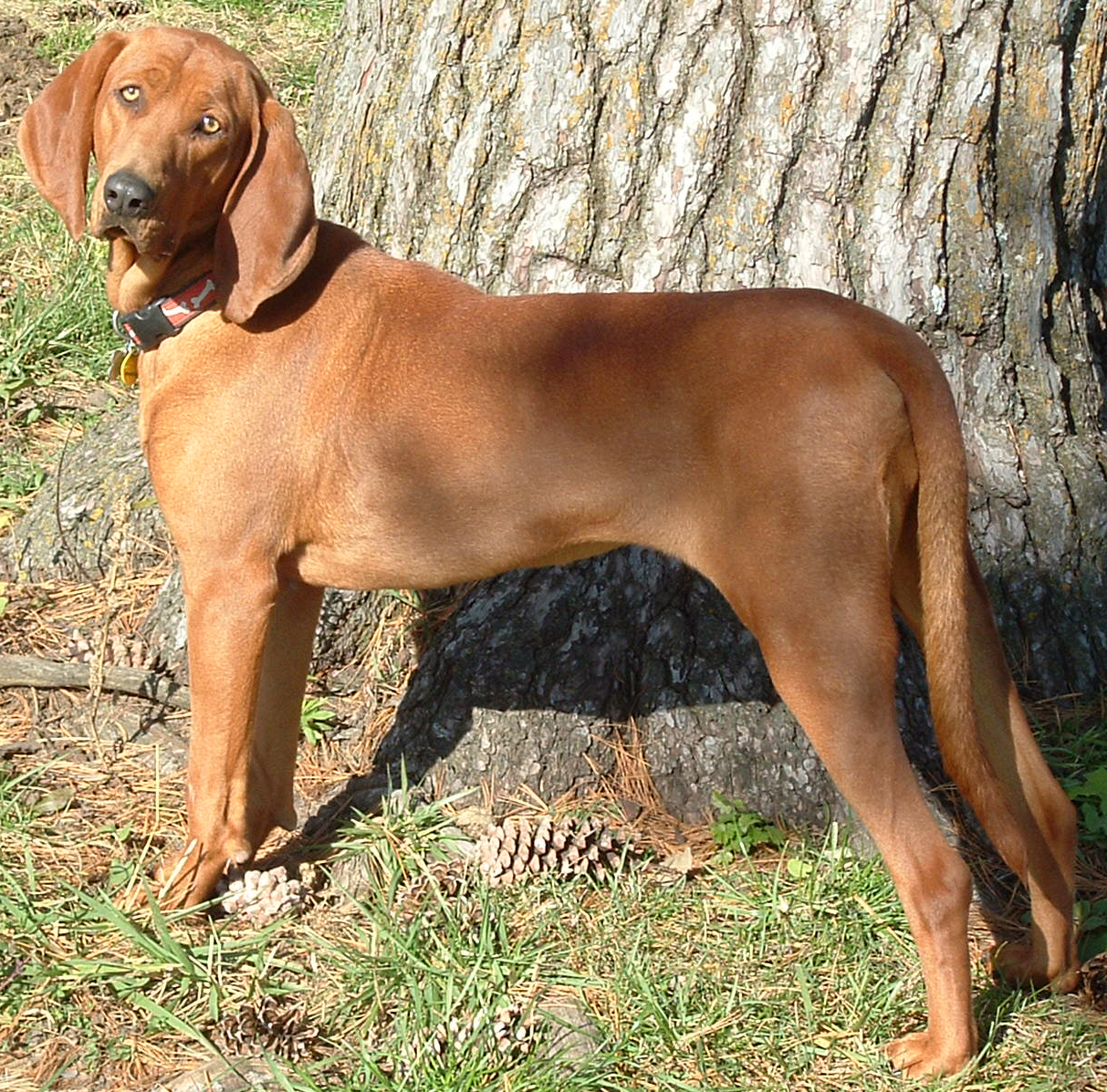 Redbone Coonhound picture "Memphis" owned and photographed by Amy Lawson